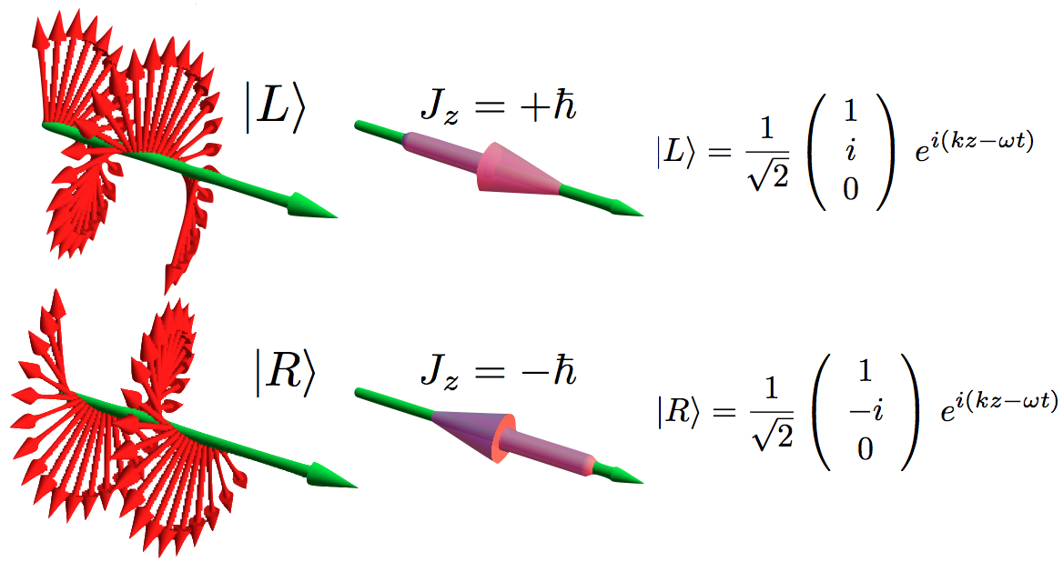 Left and right handed circular polarization, and their associate angular momentum.